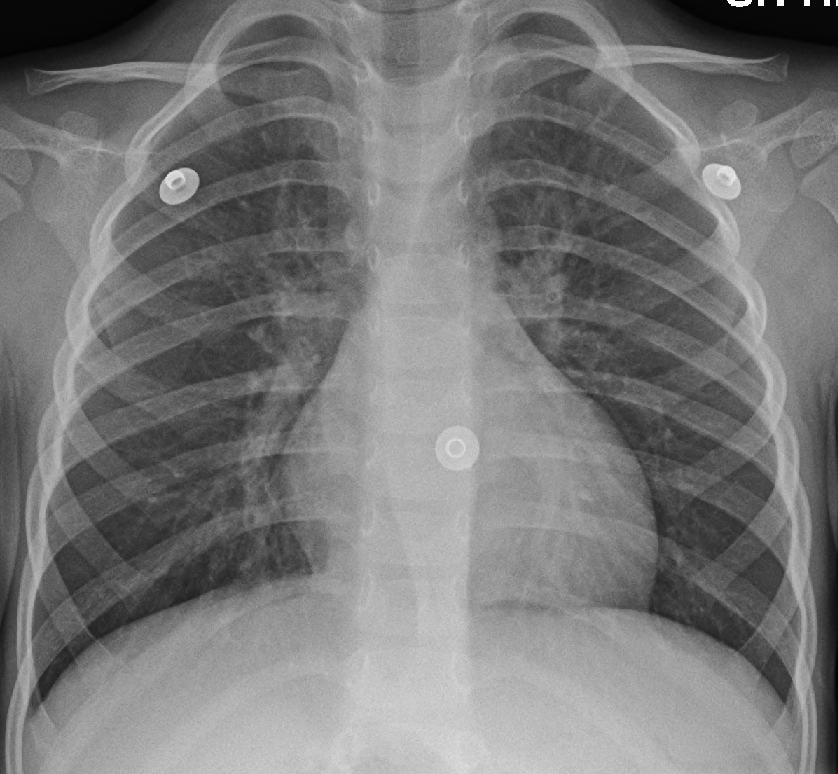 Mild peri hilar cuffing as seen in a viral bronchitis